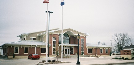 California City Hall